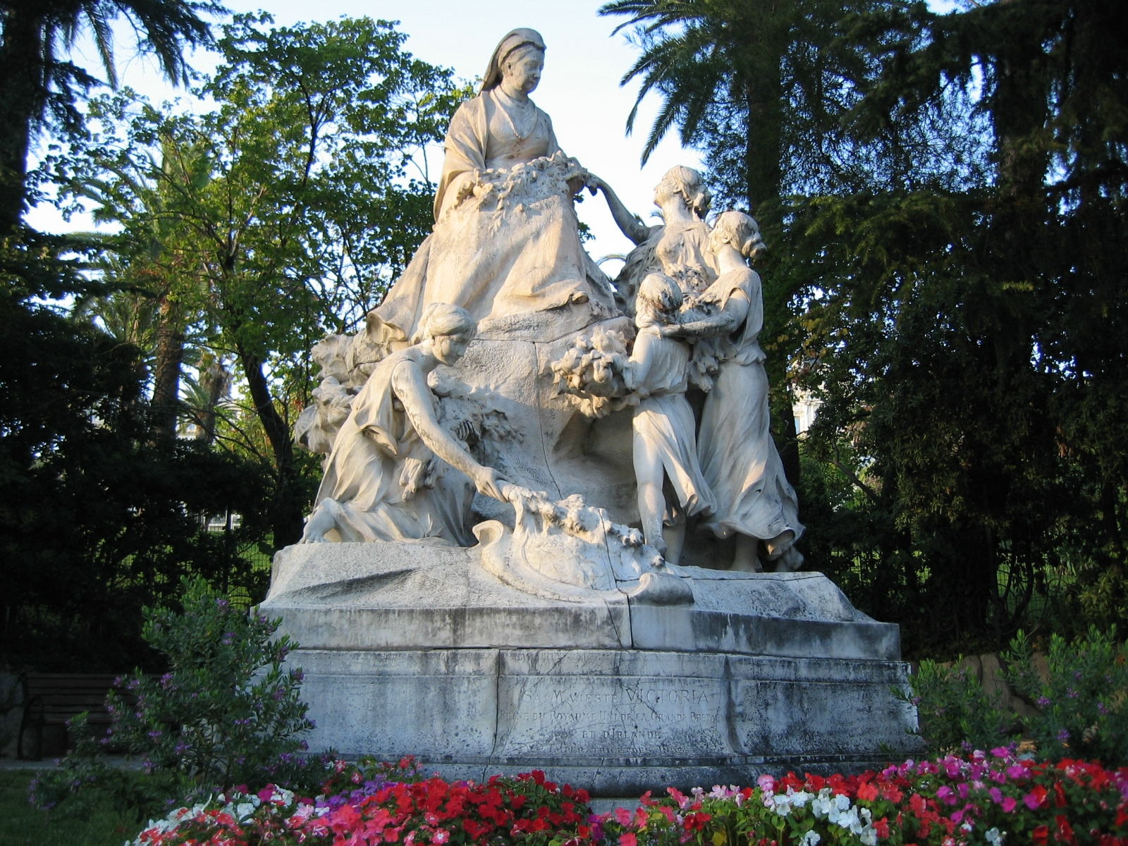 Statue of Queen Victoria in the district of Cimiez in Nice, France.